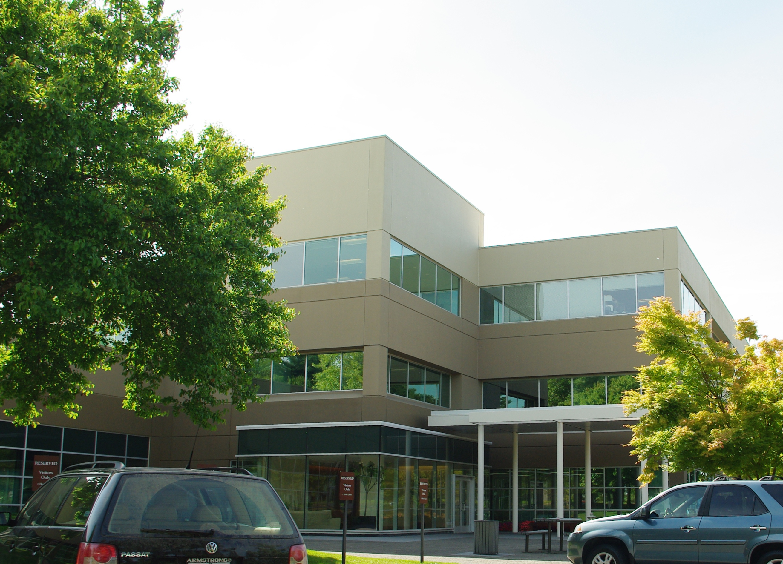 TenAsys headquarters in the AmberGlen area of Hillsboro, Oregon.